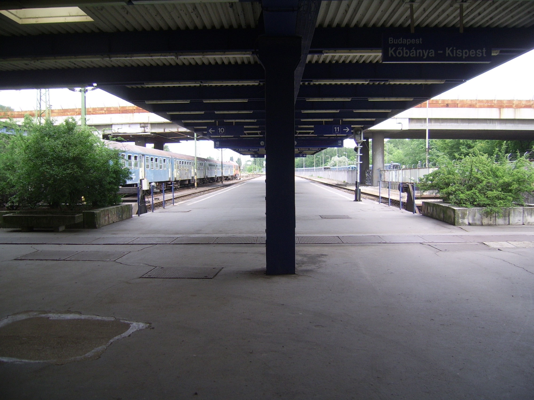 Former terminal of the Budapest–Lajosmizse–Kecskemét railway line, Budapest, Hungary